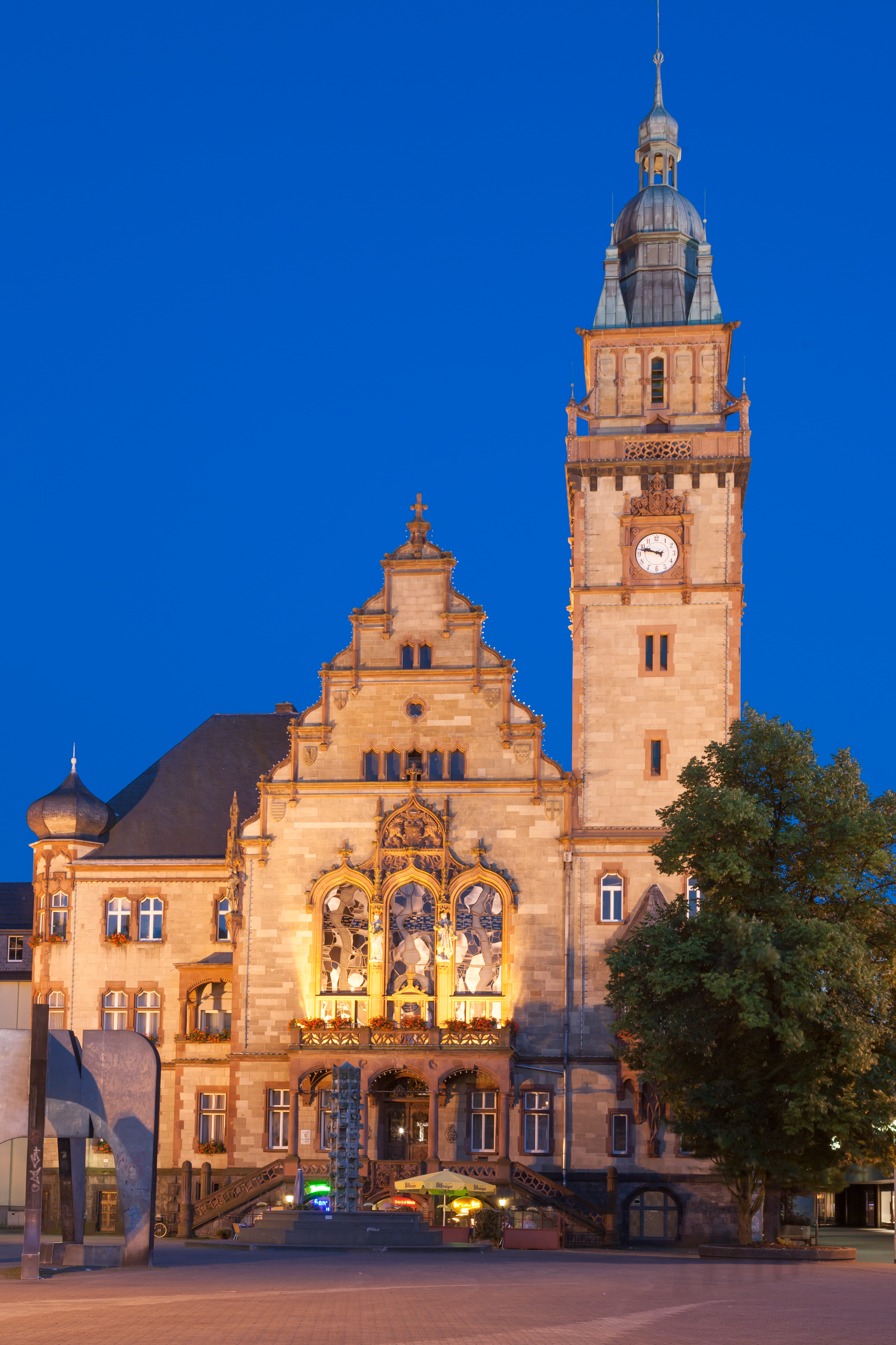 The town hall in Rheydt, Mönchengladbach